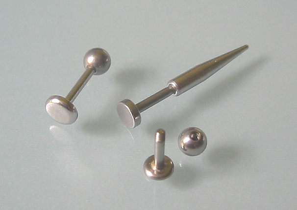 Labret-Pin